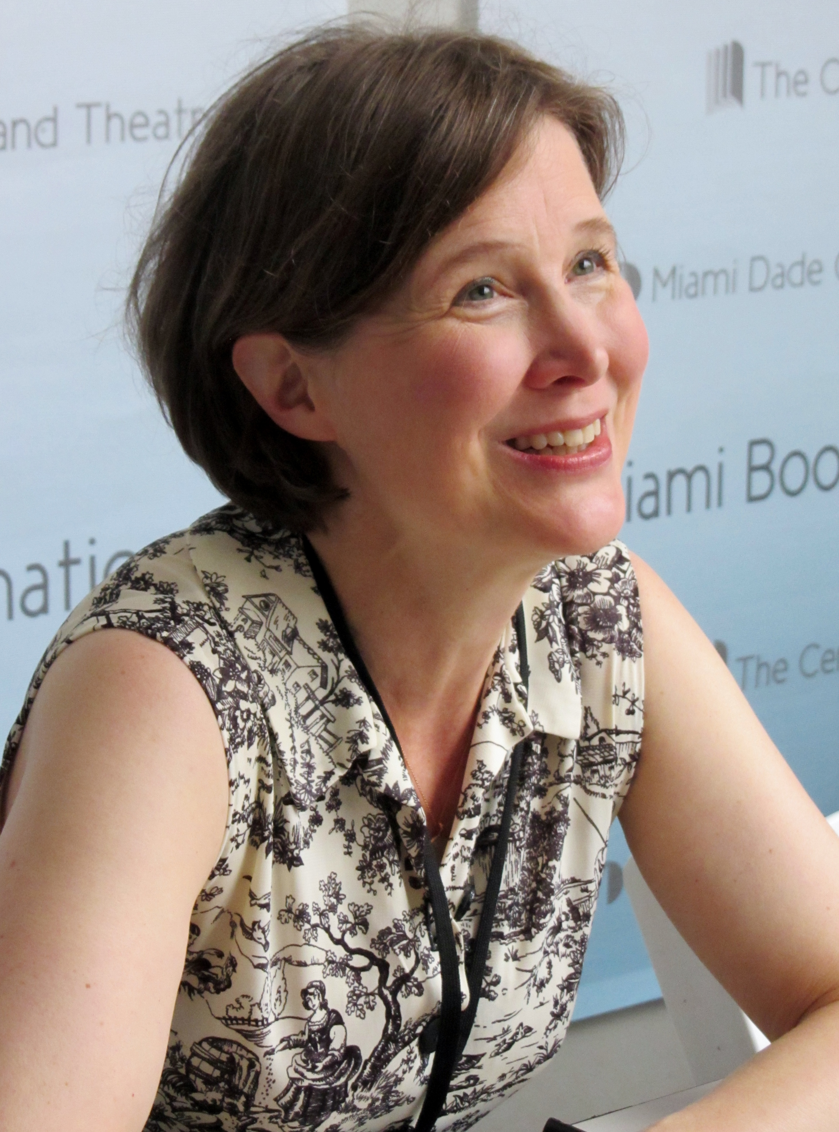 American author Ann Patchett at the Miami Book Fair International 2014